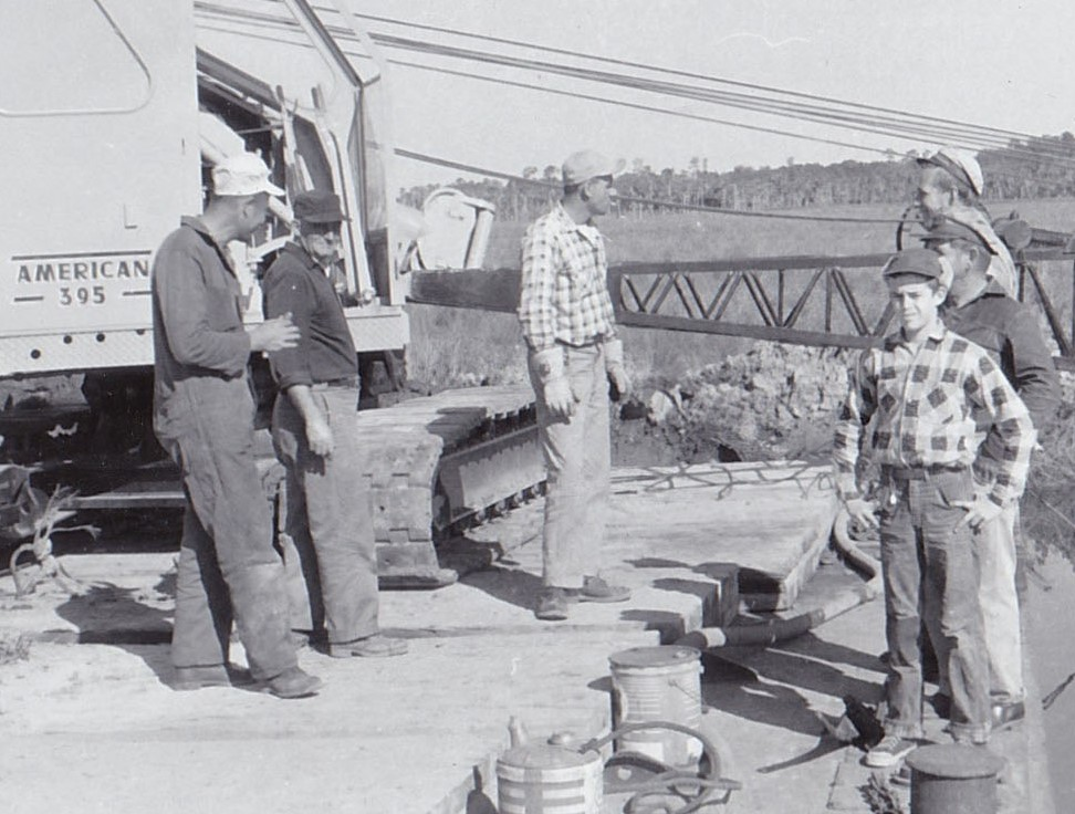 Photograph of Max Moody III by Max Moody, Jr.